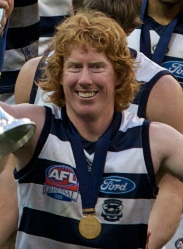 Celebration for the Geelong Football Club. Wikipedia:Cameron Ling, the club's then vice-captain, is seen holding up the cup, along with Cameron Mooney.